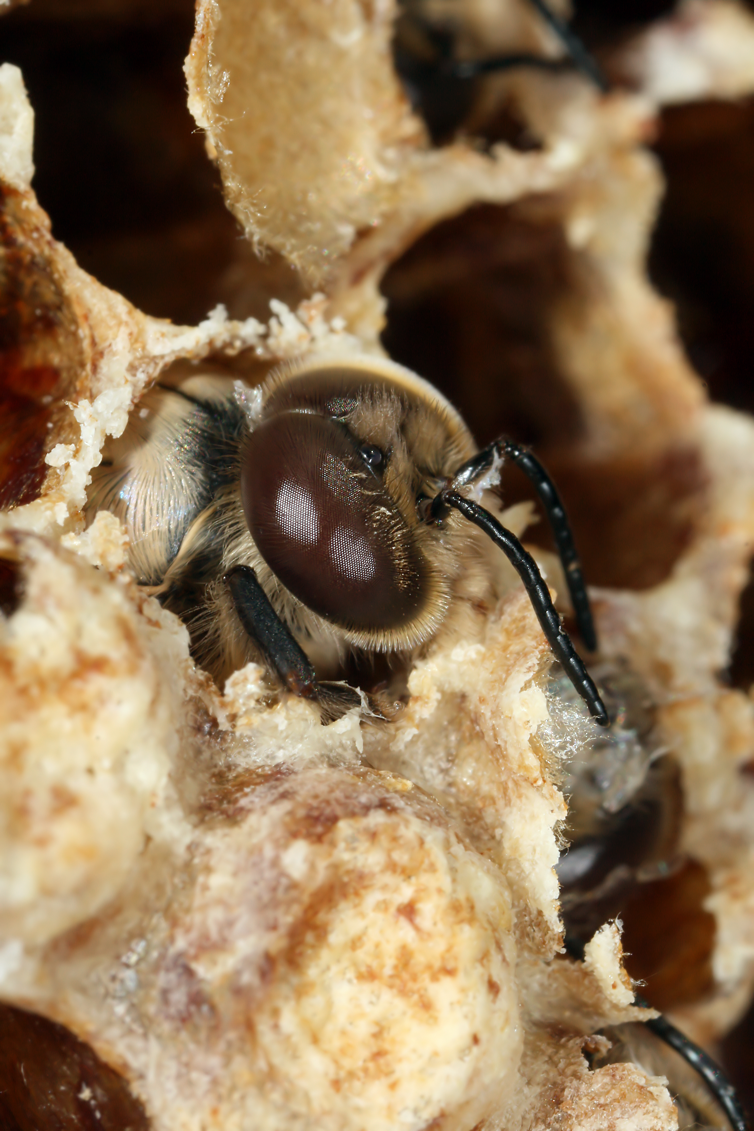 Description: The Carniolan honey bee (Apis mellifera carnica) is a subspecies of Western honey bee. It originates from Slovenia, but can now be found also in Austria, part of Hungary, Romania, Croatia, Bosnia and Herzegovina, and Serbia.